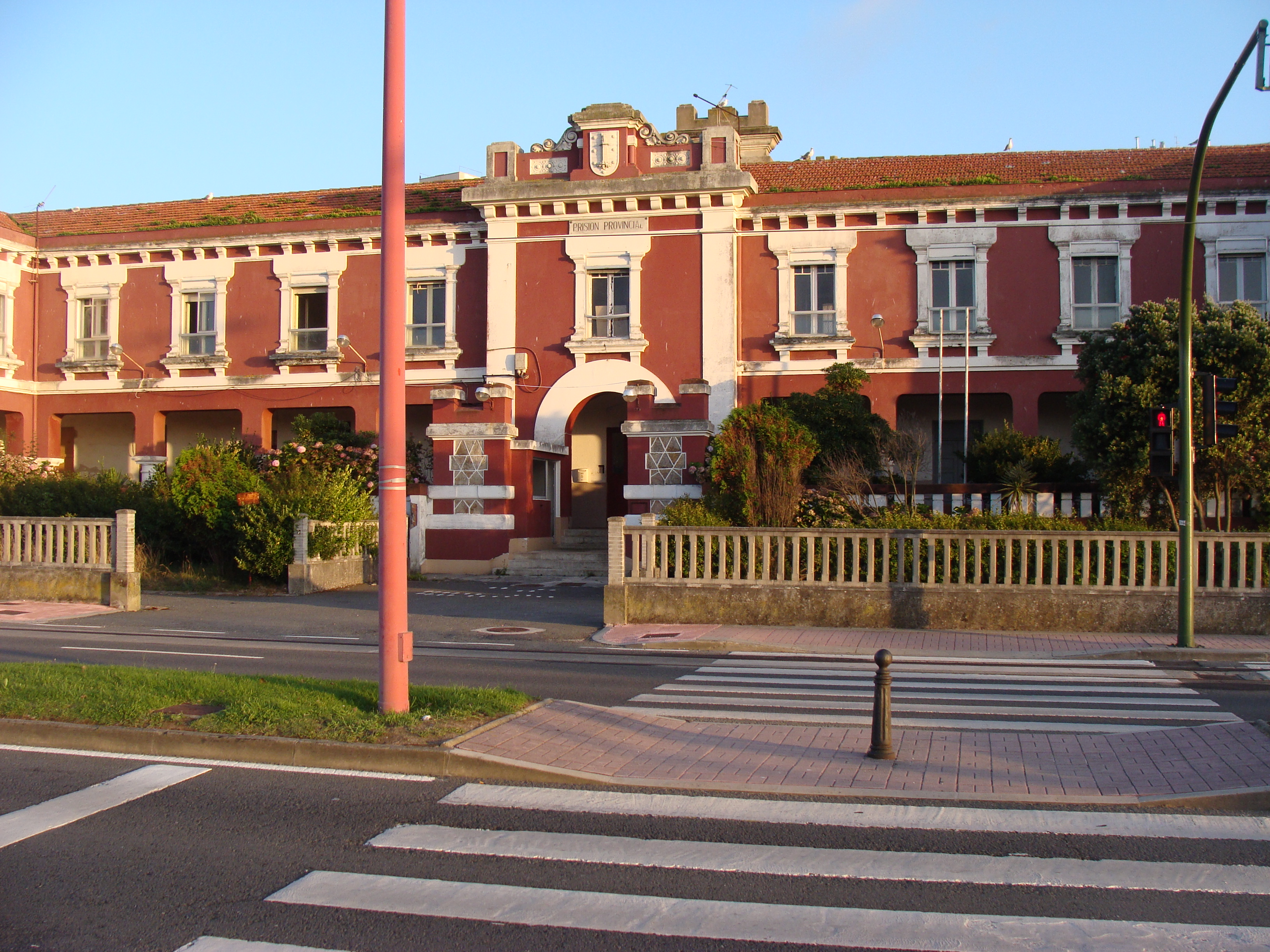 Provincial prisson in A Coruña, Galicia in Corunna, Spain